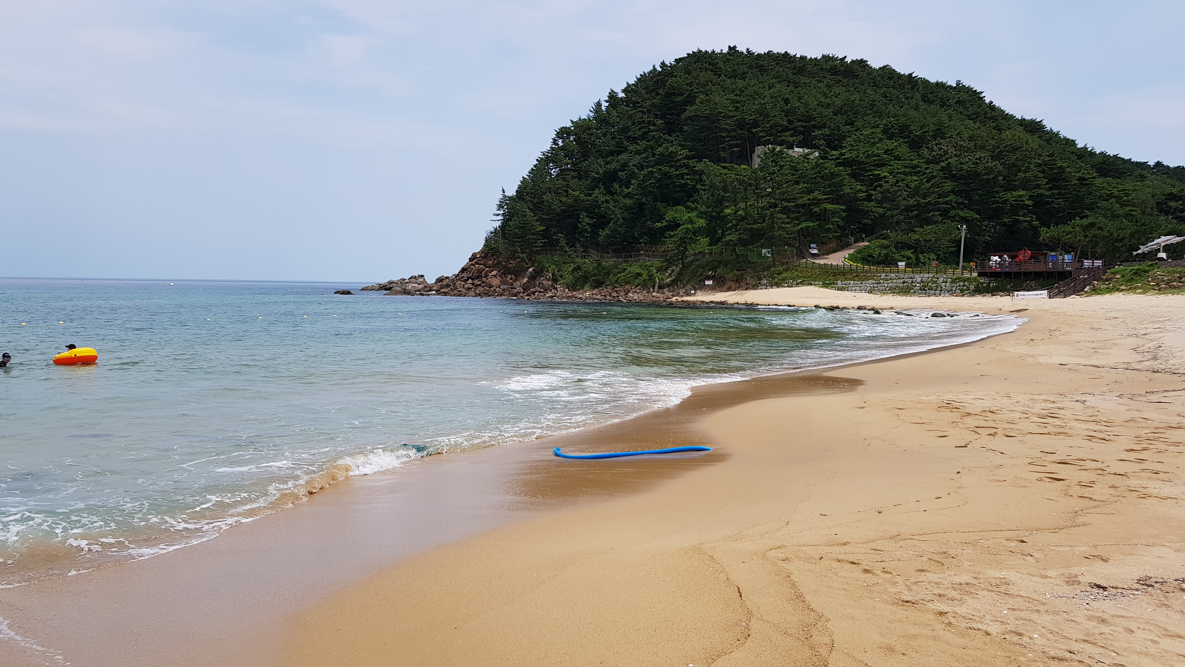 Hwajinpo